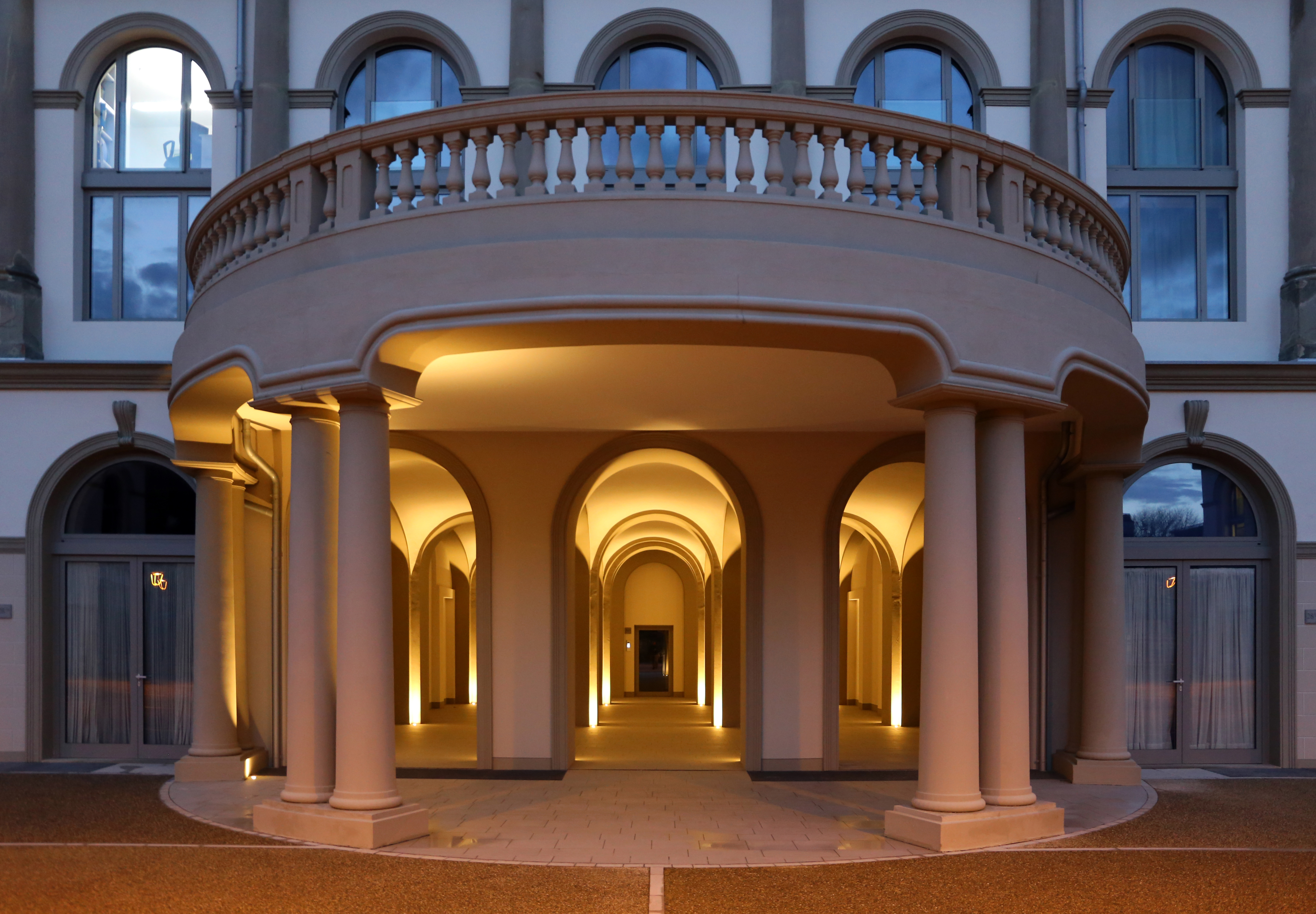 Villa San Donato